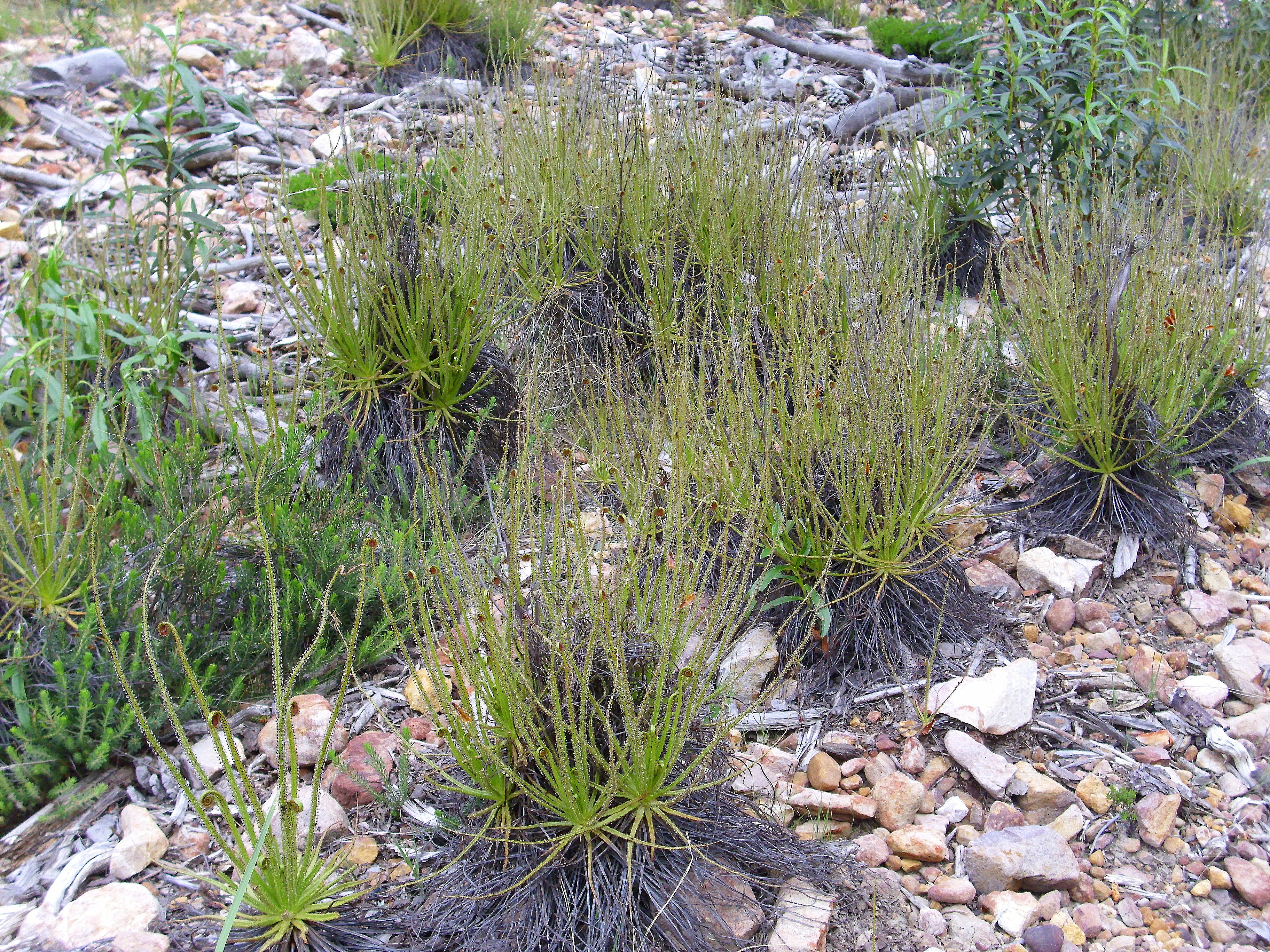 Drosophyllum lusitanicum habitat, Sierra Madrona, Spain